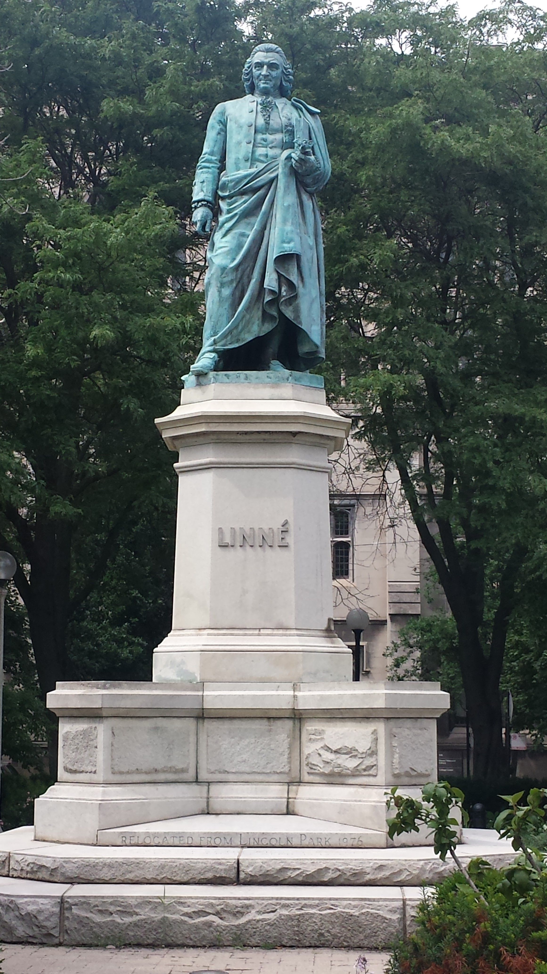 Linne statue on University of Chicago campus. After Frithiof Kjellberg (Swedish, 1836-1885): Carl von Linné Monument, 1891, (copy of the original located in the Humlegarden in Stockholm), unveiled in Lincoln Park on May 23, 1891, anniversary of Linné's birth, moved to Midway Plaisance (South of E. 59th Street between S. Ellis Avenue and S. University Avenue) in 1976.[1] Next to the Harper Memorial Library, University of Chicago, Illinois, United States. ↑ Chicago Park District